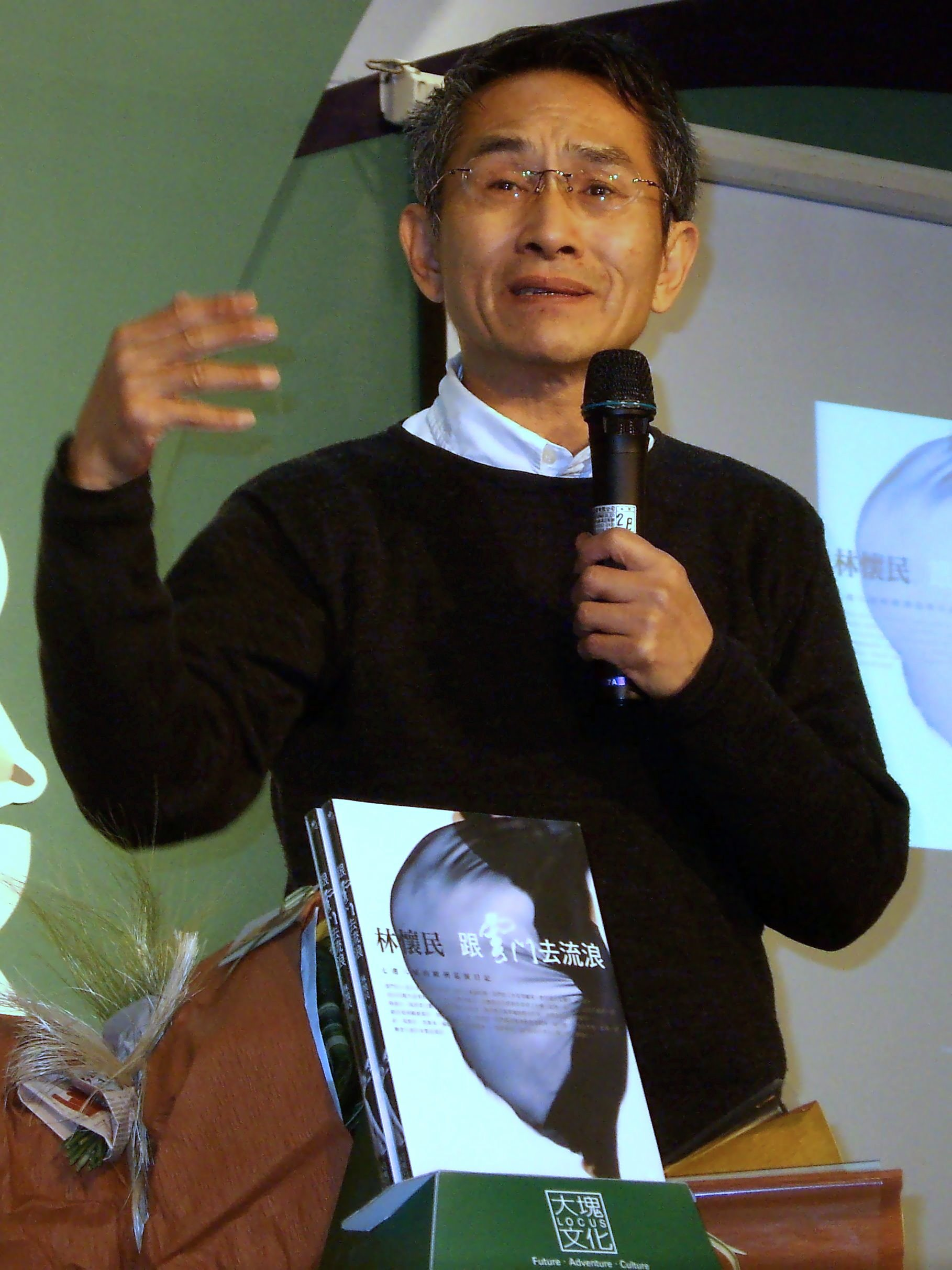 2008 Taipei International Book Exhibition - Hall 1 Theme Square: Taiwanese Art-worker Hwai-min Lin.中文（台灣）: 出席2008年臺北國際書展的林懷民先生。